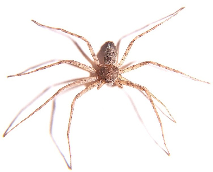 Running Crab spider (Philodromus sp.), Family Philodromidae. This indoor spider has some sort of hitchhiker on its abdomen.